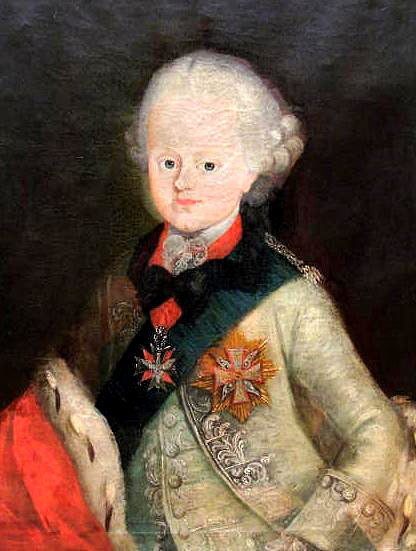 Karl August, Grand Duke of Saxe-Weimar-Eisenach (1757–1828) aged 10